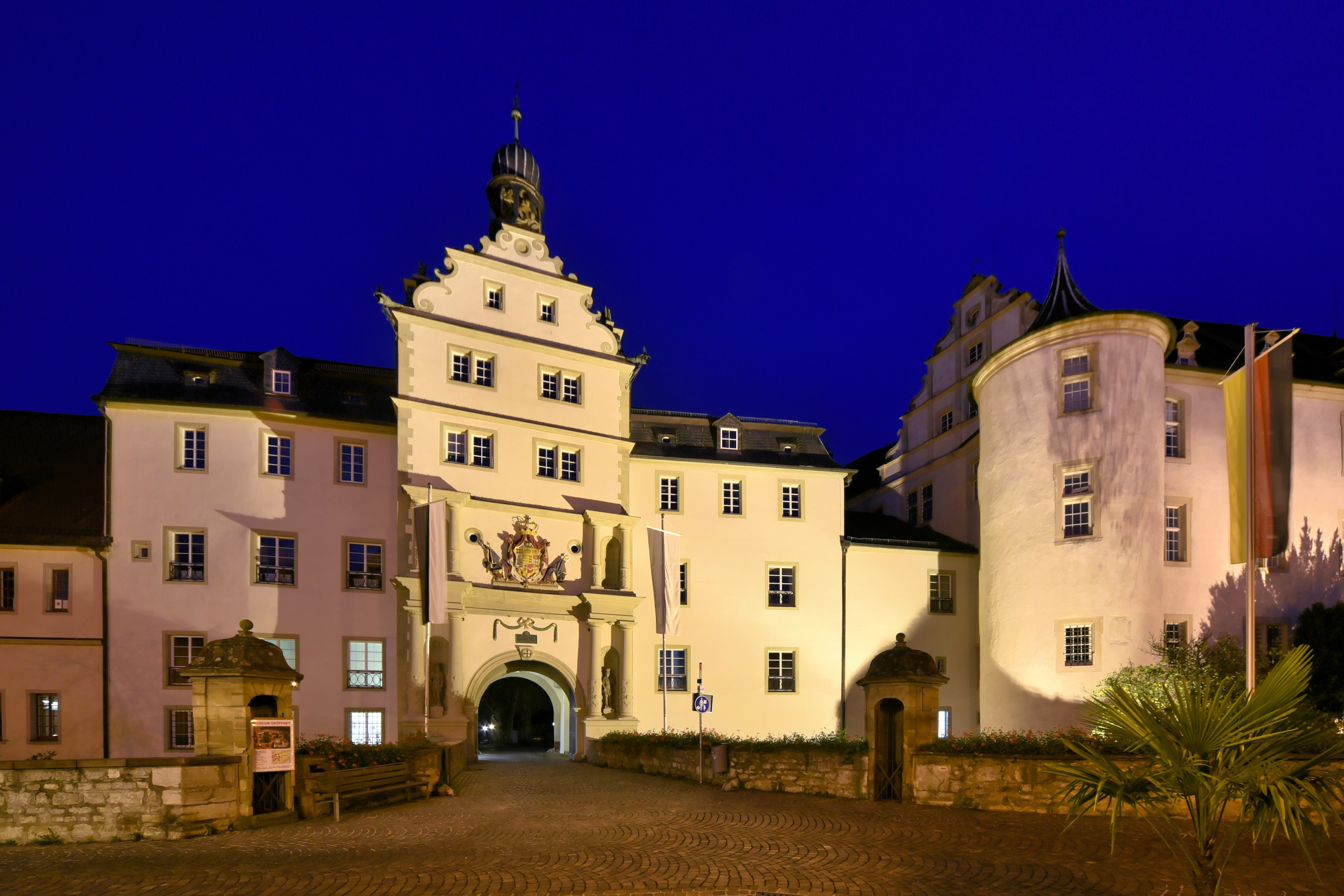 The restored gatehouse of German order Castle.